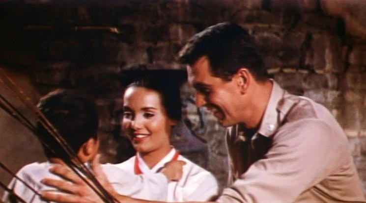 Anna Kashfi and Rock Hudson in Battle Hymn (1957) - trailer (cropped screenshot)